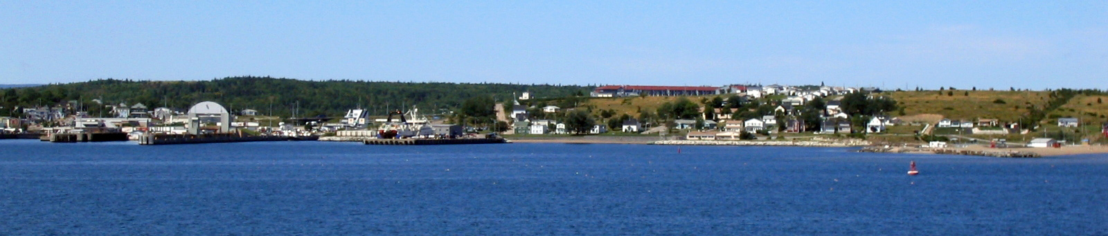 Panorama of North Sydney, Nova Scotia